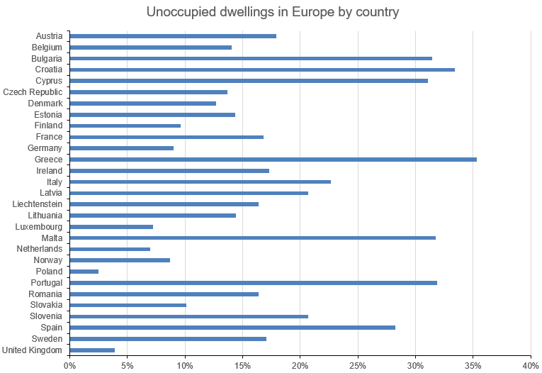 Percentage of unoccupied dwellings (including those used only seasonally) in Europe by country[1]